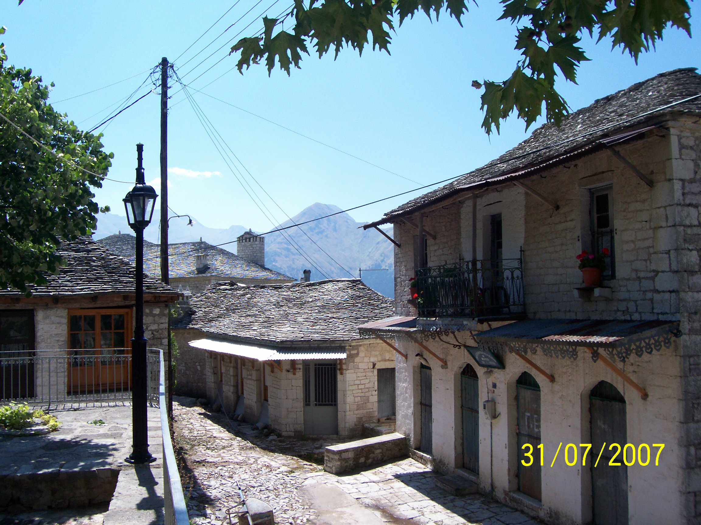 Street in Kalarrytes